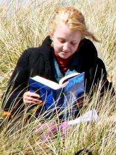 Evanna Lynch reading during filming for Harry Potter and the Deathly Hallows at Freshwater West, Pembrokeshire in May 2009.